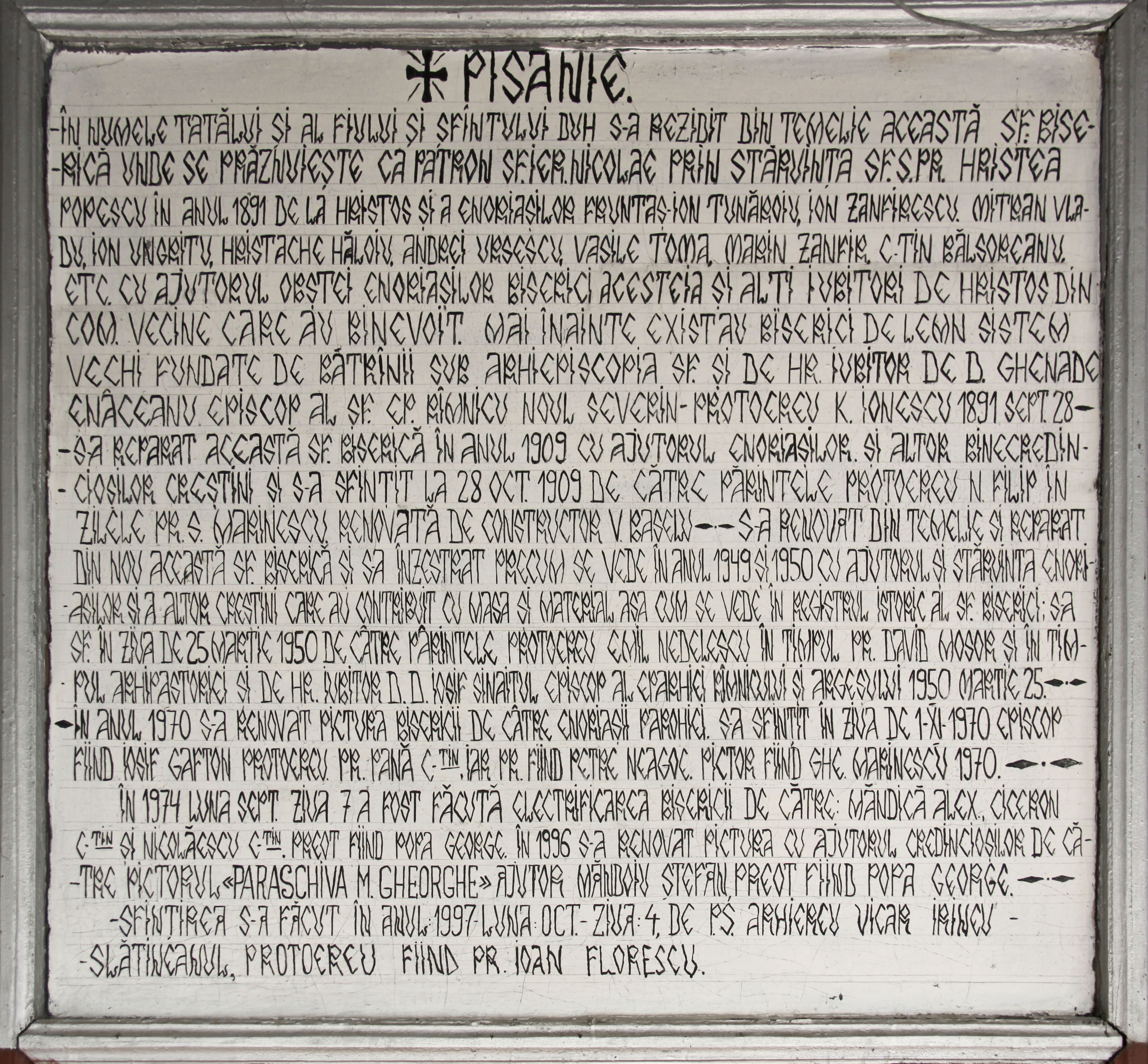 Mamu, Vâlcea county, Romania: the wooden church.